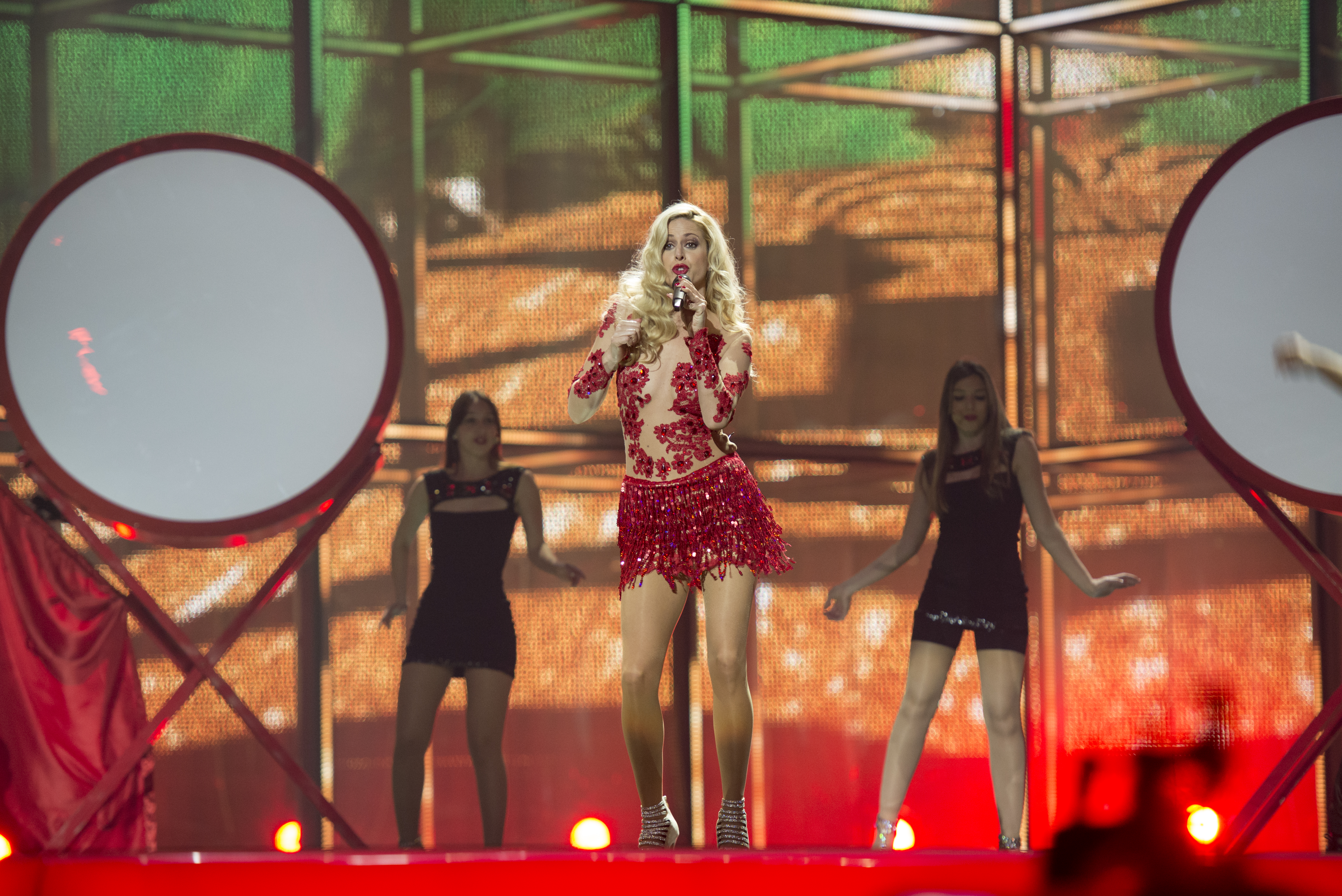 Suzy representing Portugal with the song "Quero ser tua" during the first dress rehearsal of the first semi final of the Eurovision Song Contest 2014 Copenhagen. (Help translate this text)